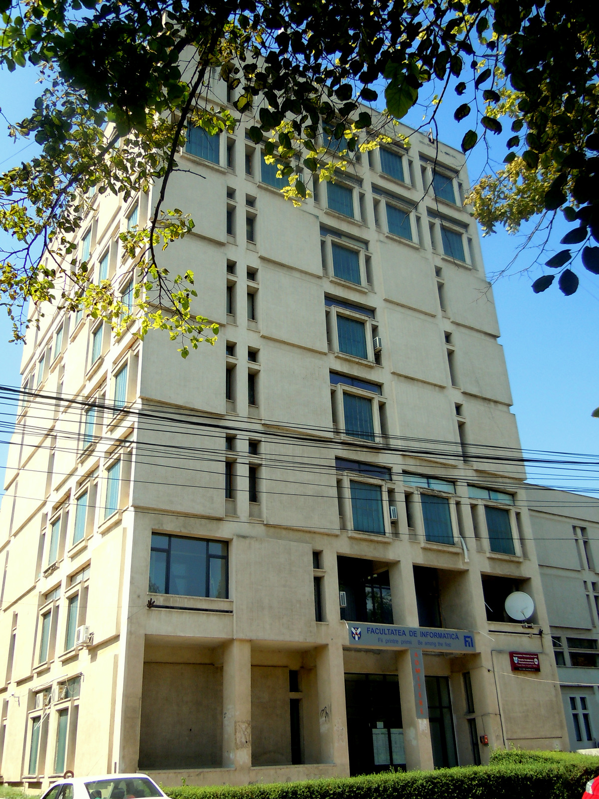 Alexandru Ioan Cuza University , Building C , Faculty of Informatics of Iasi , Iaşi , Romania